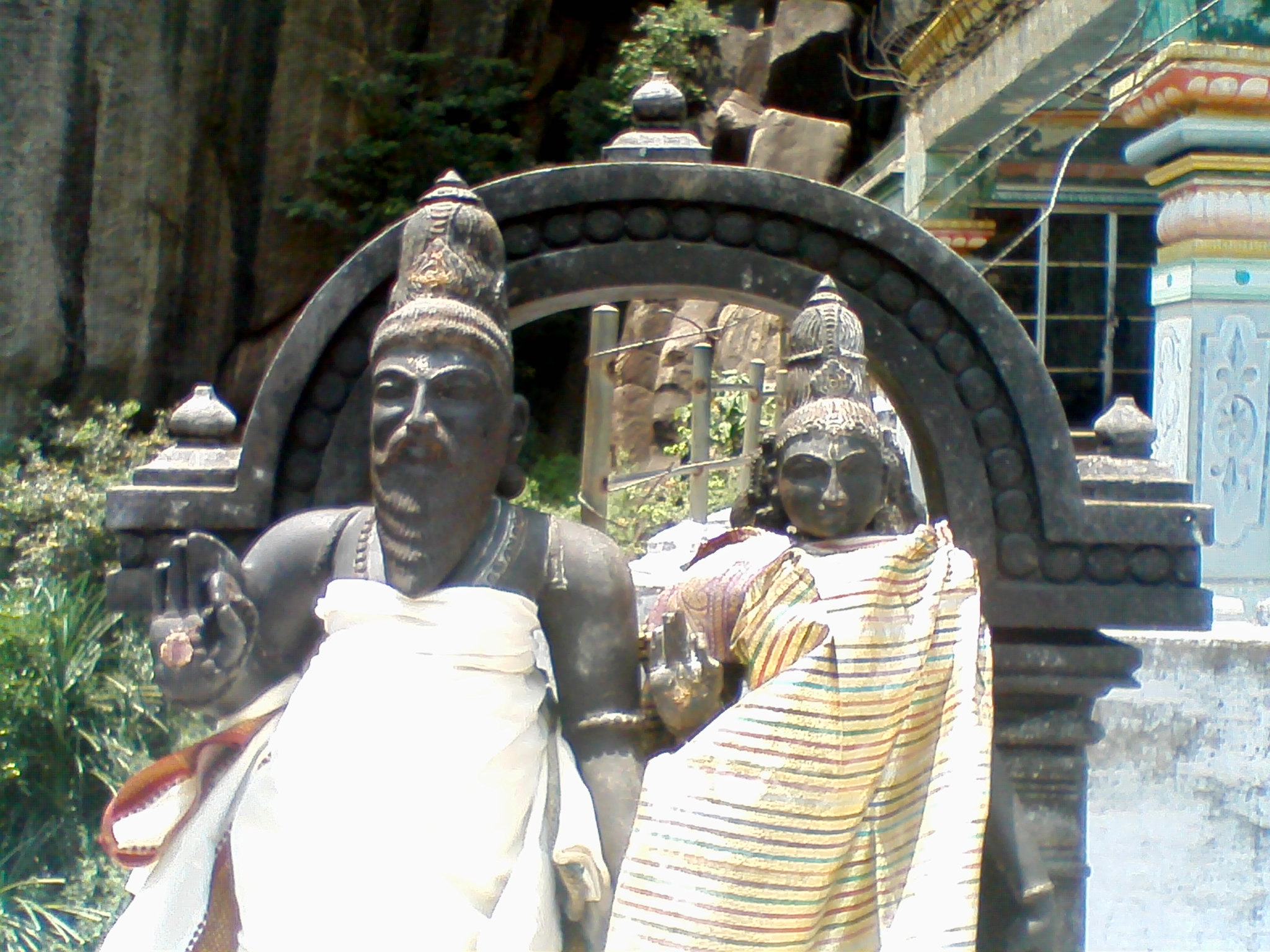 a statue agastiyar with his wife in the top of the papanasam mountain